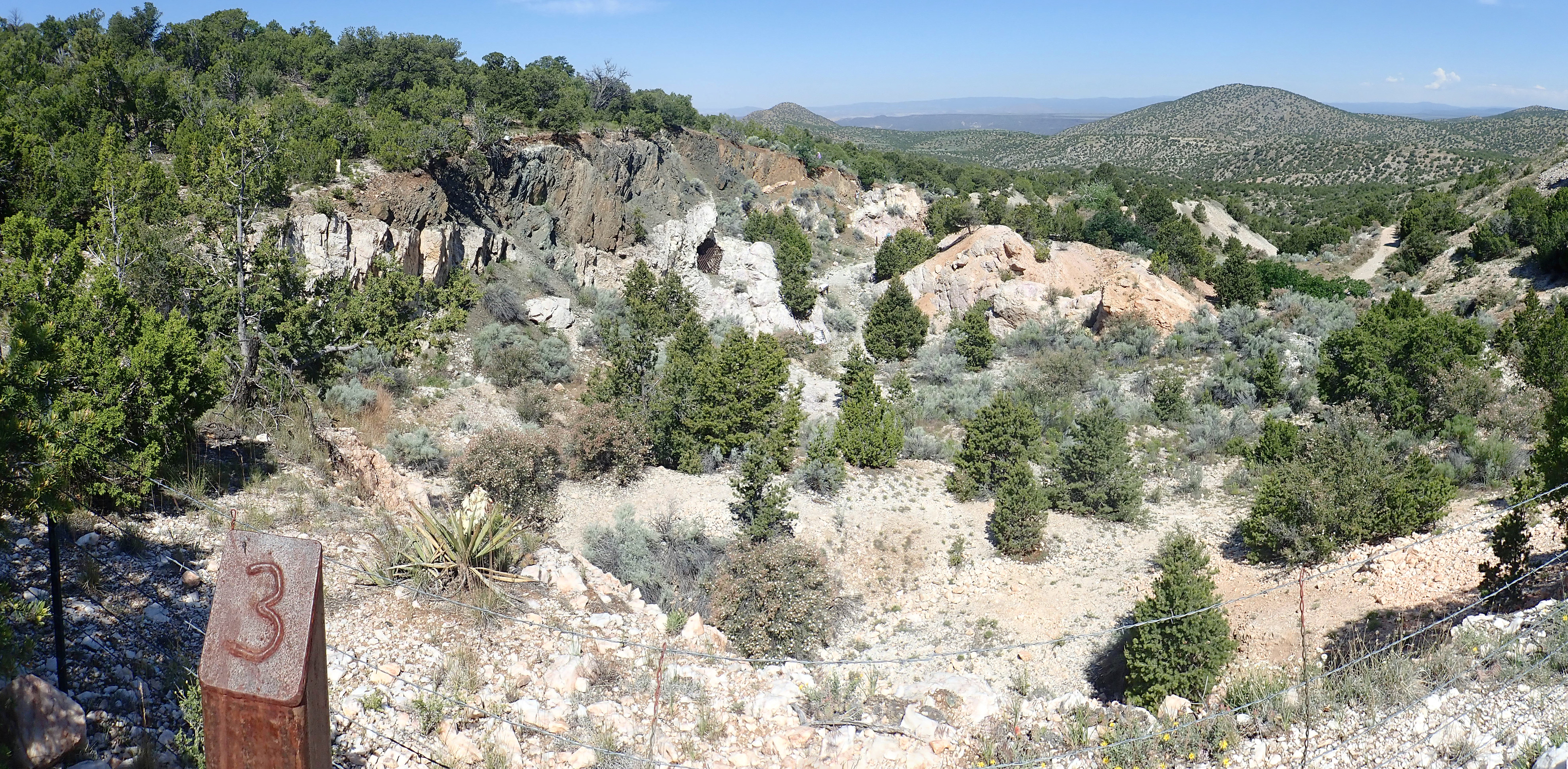 This shows the main quarry of the Harding Pegmatite Mine, looking from the east rim of the quarry.